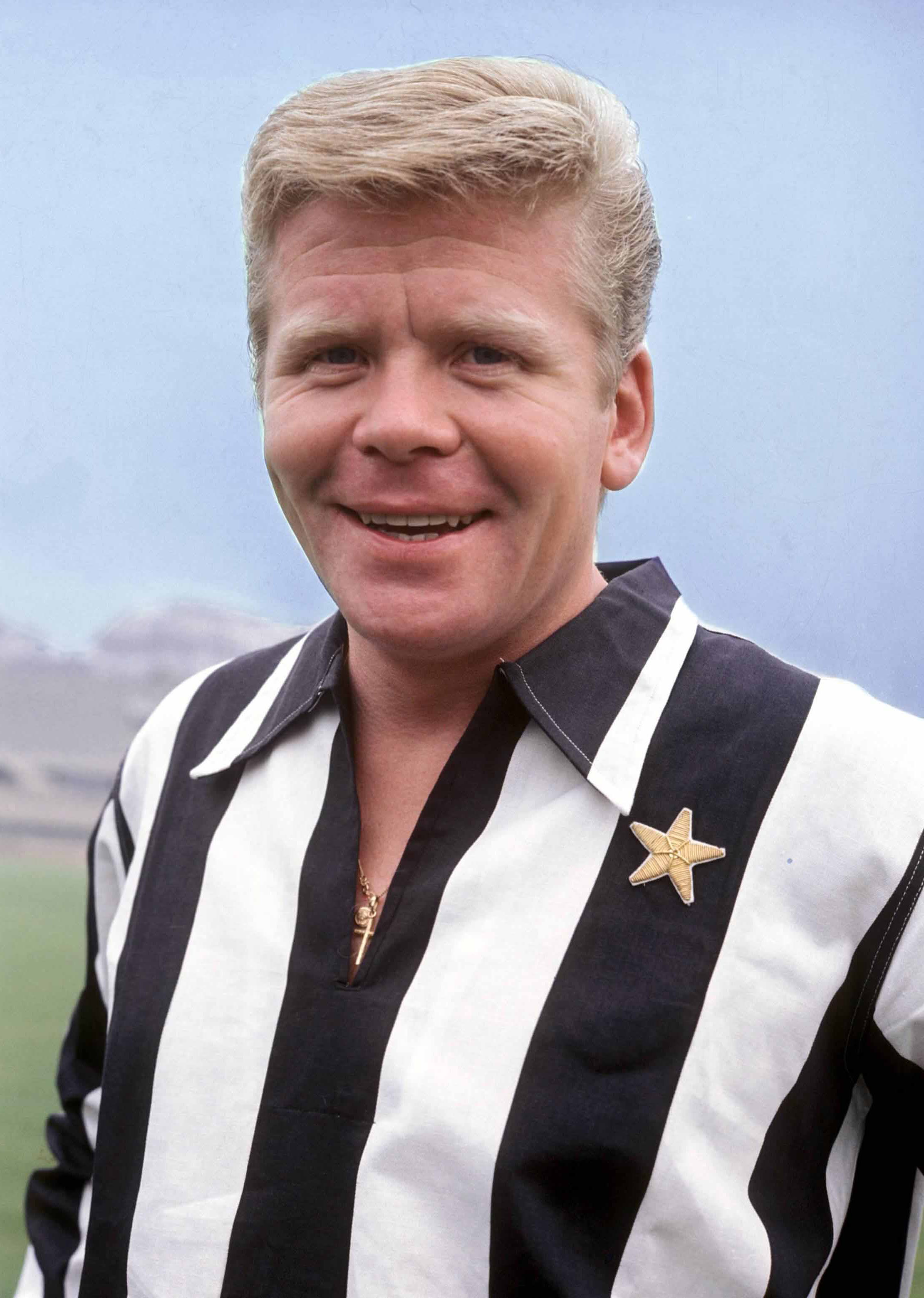 West German footballer Helmut Haller with Juventus F.C. in the late 1960s, posing inside the Communal Stadium in Turin, Italy.